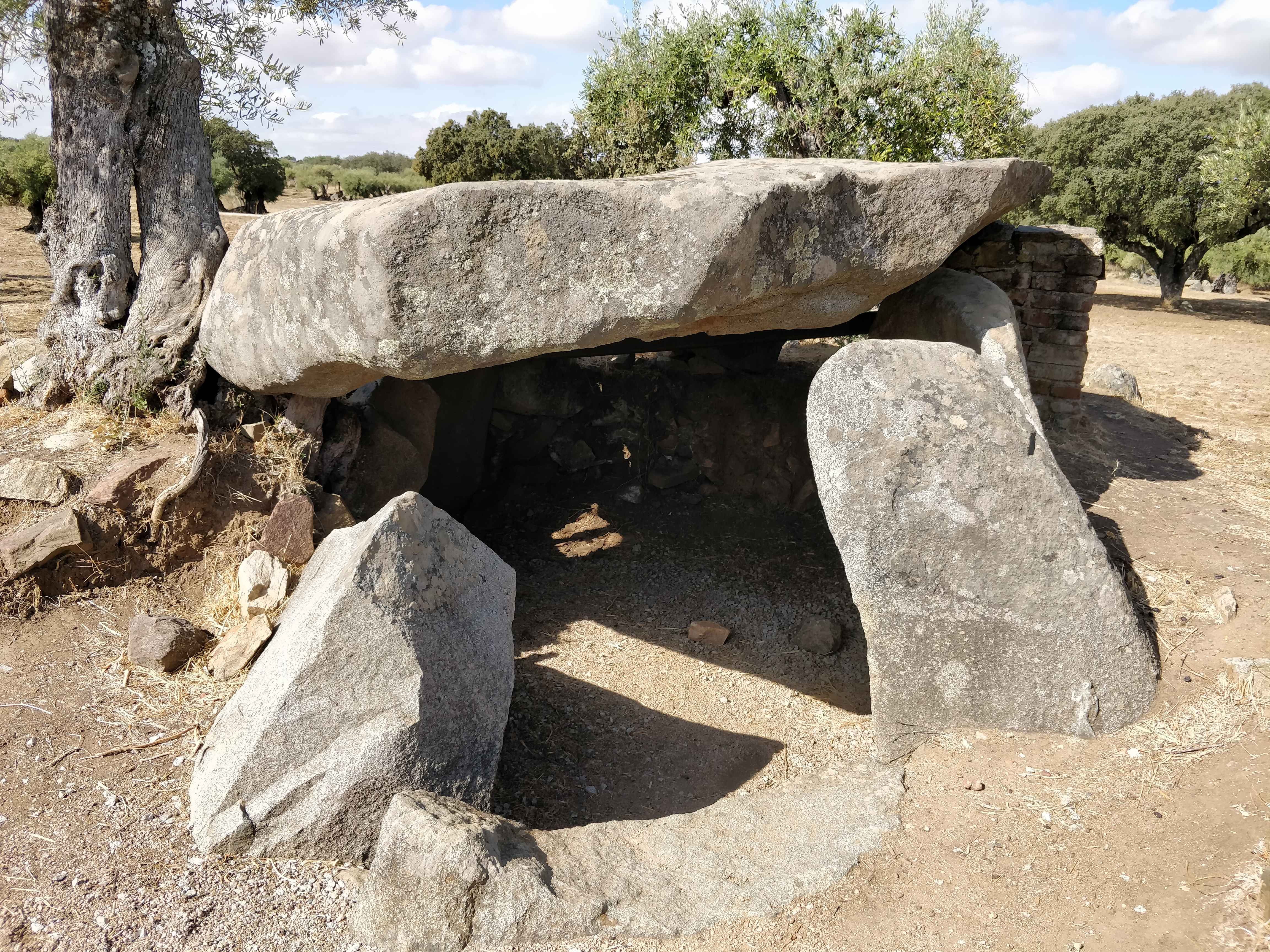 Anta 2 of the two Antas do Olival da Pêga near Monsaraz in the Evora District of the Alentejo region of Portugal